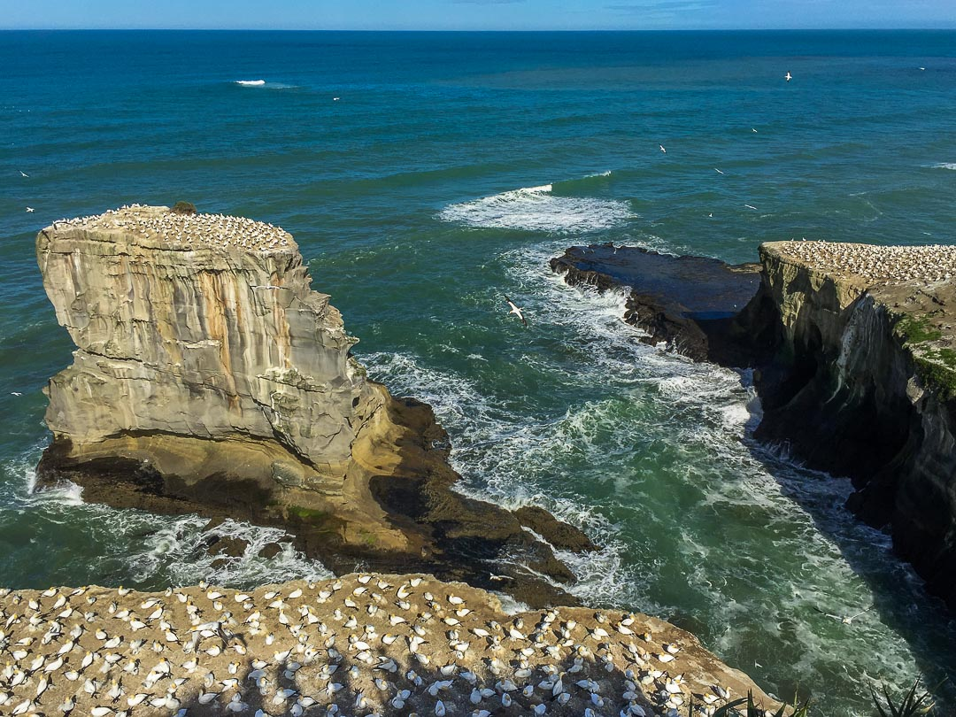 Gannet colony - Mirawai - New ZealandIMG_5628